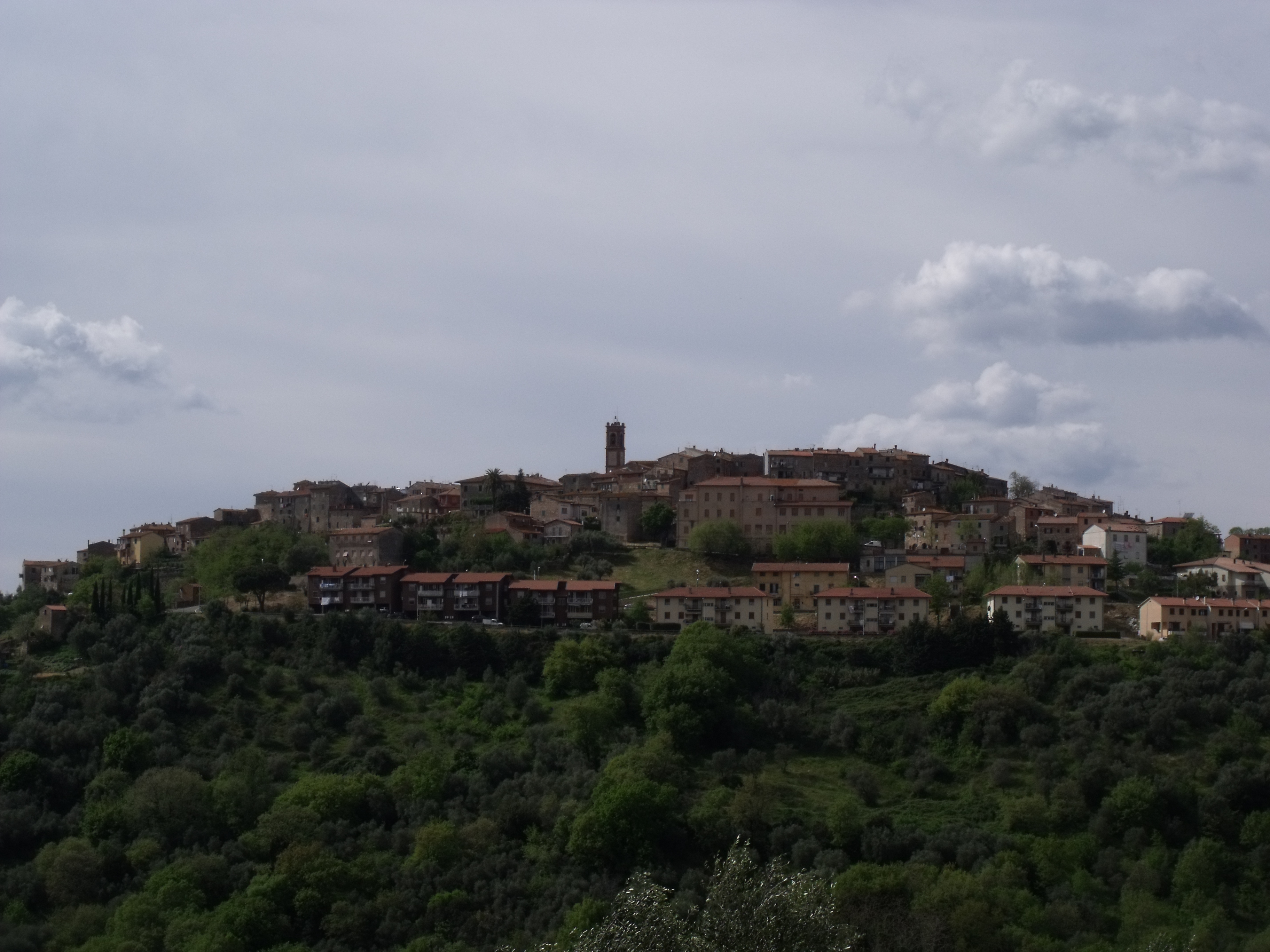 Panorama of Civitella Marittima, hamlet of Civitella Paganico, Maremma, Province of Grosseto, Tuscany, Italy